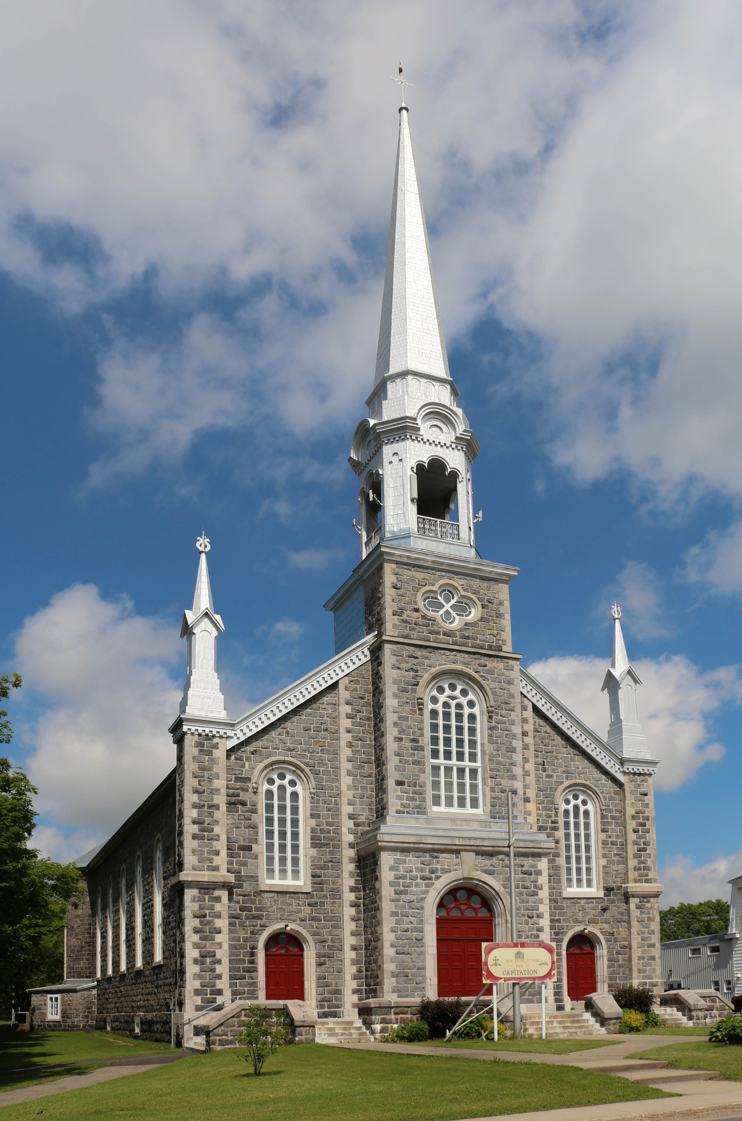 Saint-Gervais et Saint-Protais Church, Saint-Gervais, Quebec, Canada